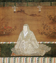 Lady Kōdai-in (Nene) (1579–1624)